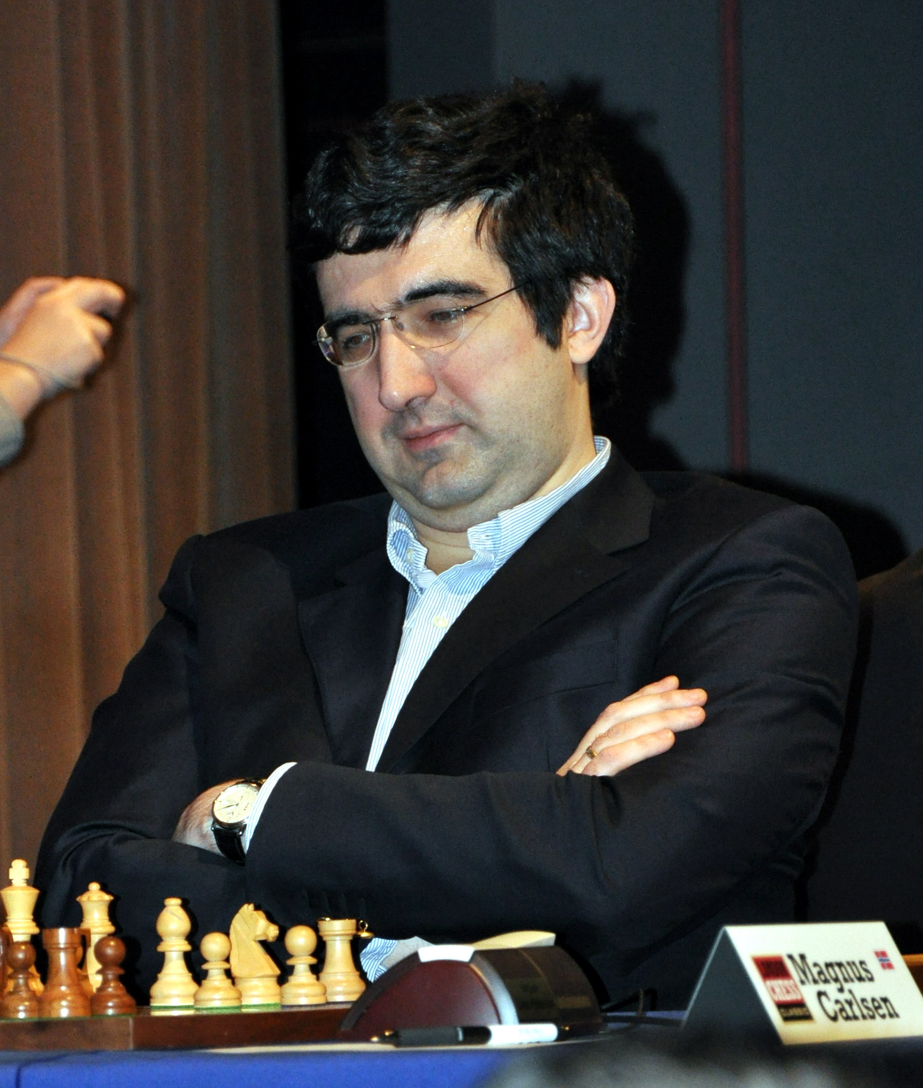 Vladimir Kramnik - London Chess Classic 2010